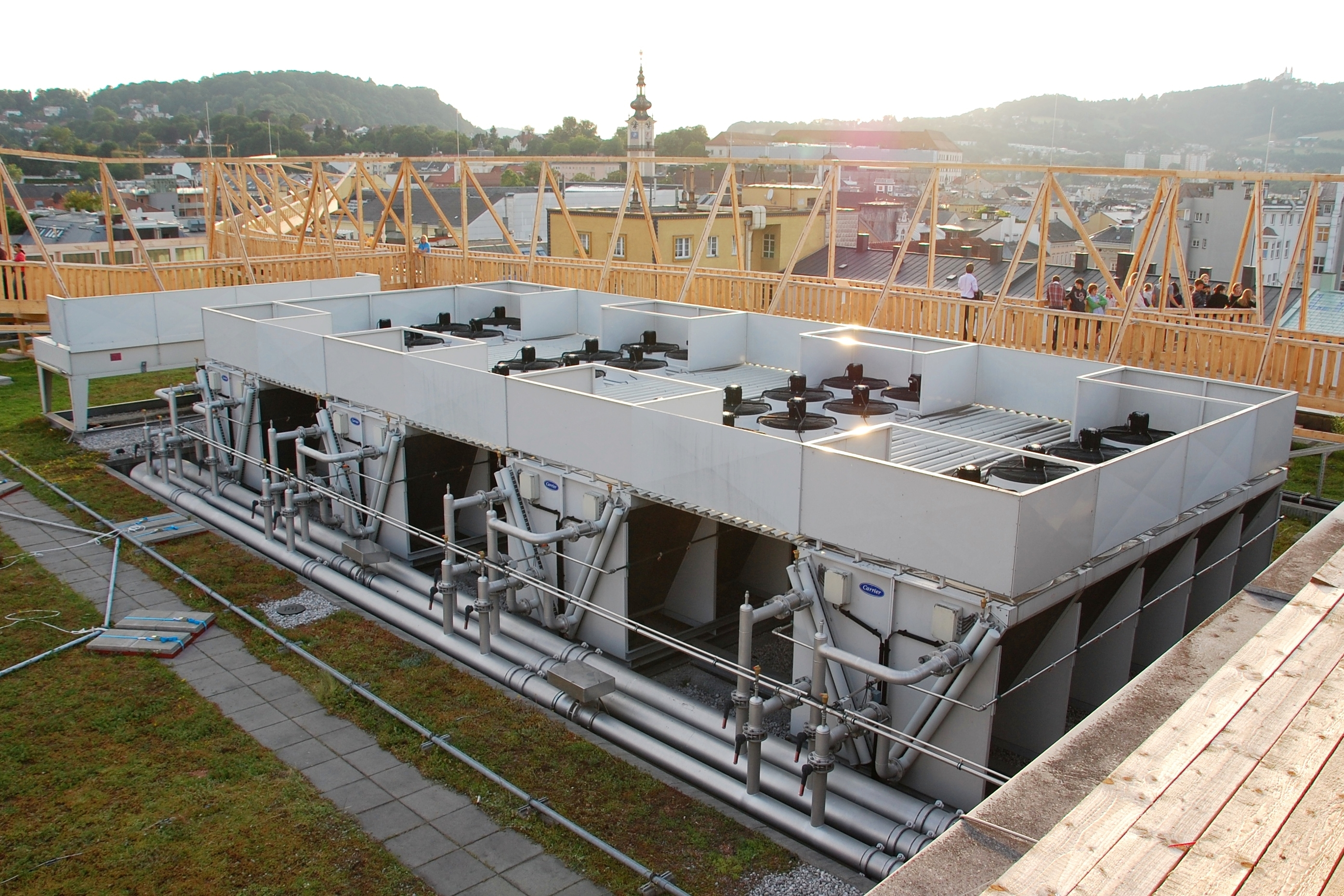 An industrial air conditioning unit on top of the shopping mall Passage in Linz, Austria